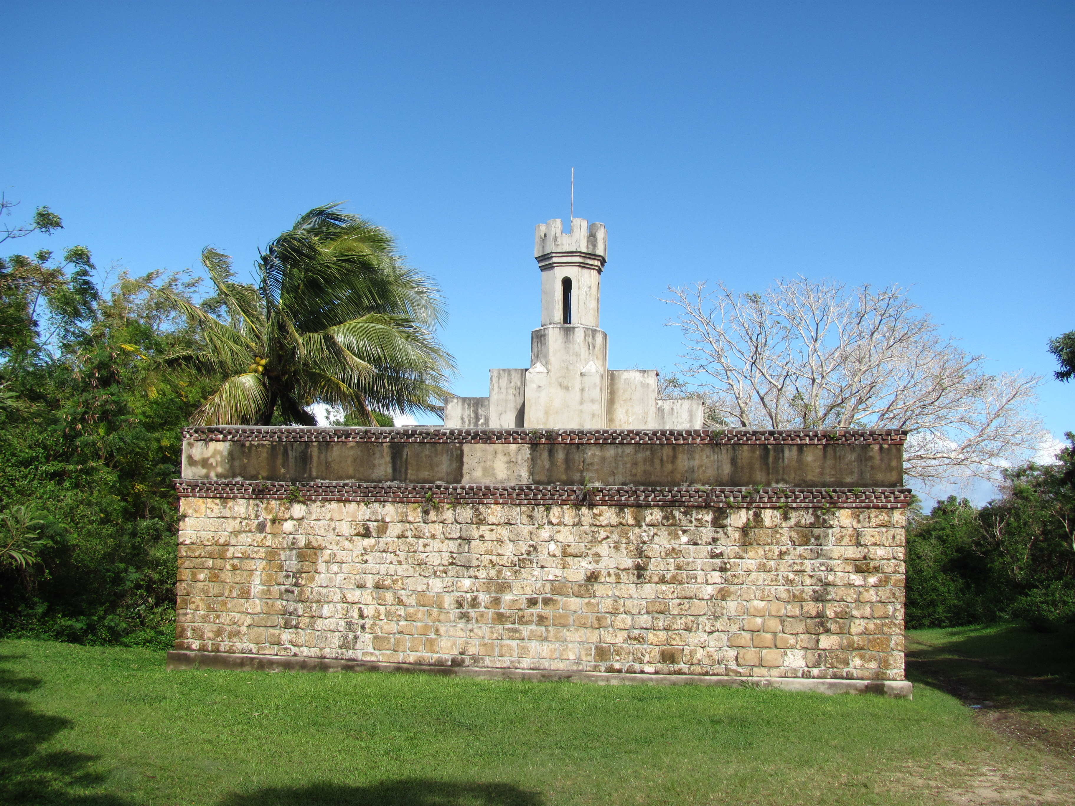 Penal colony at Ouro, Ile des Pins, New Caledonia